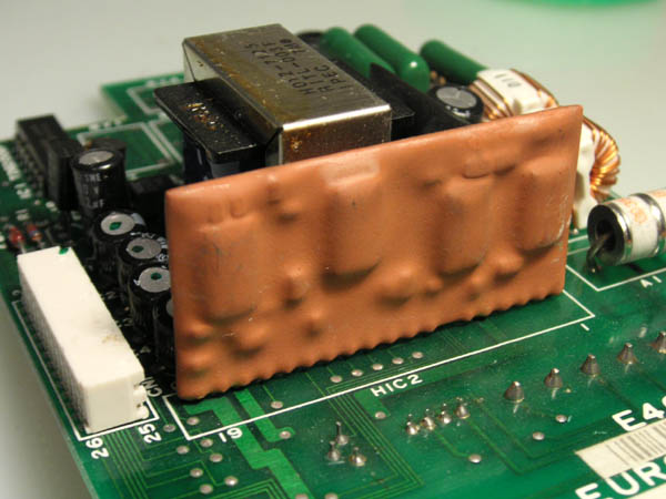 A hybrid integrated circuit (orange), encapsulated in epoxy resin.